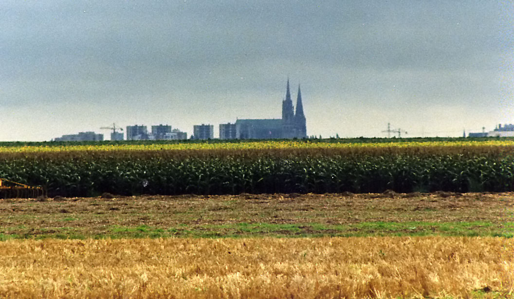 The Cathédrale Notre-Dame de Chartres, from across a wheat field.